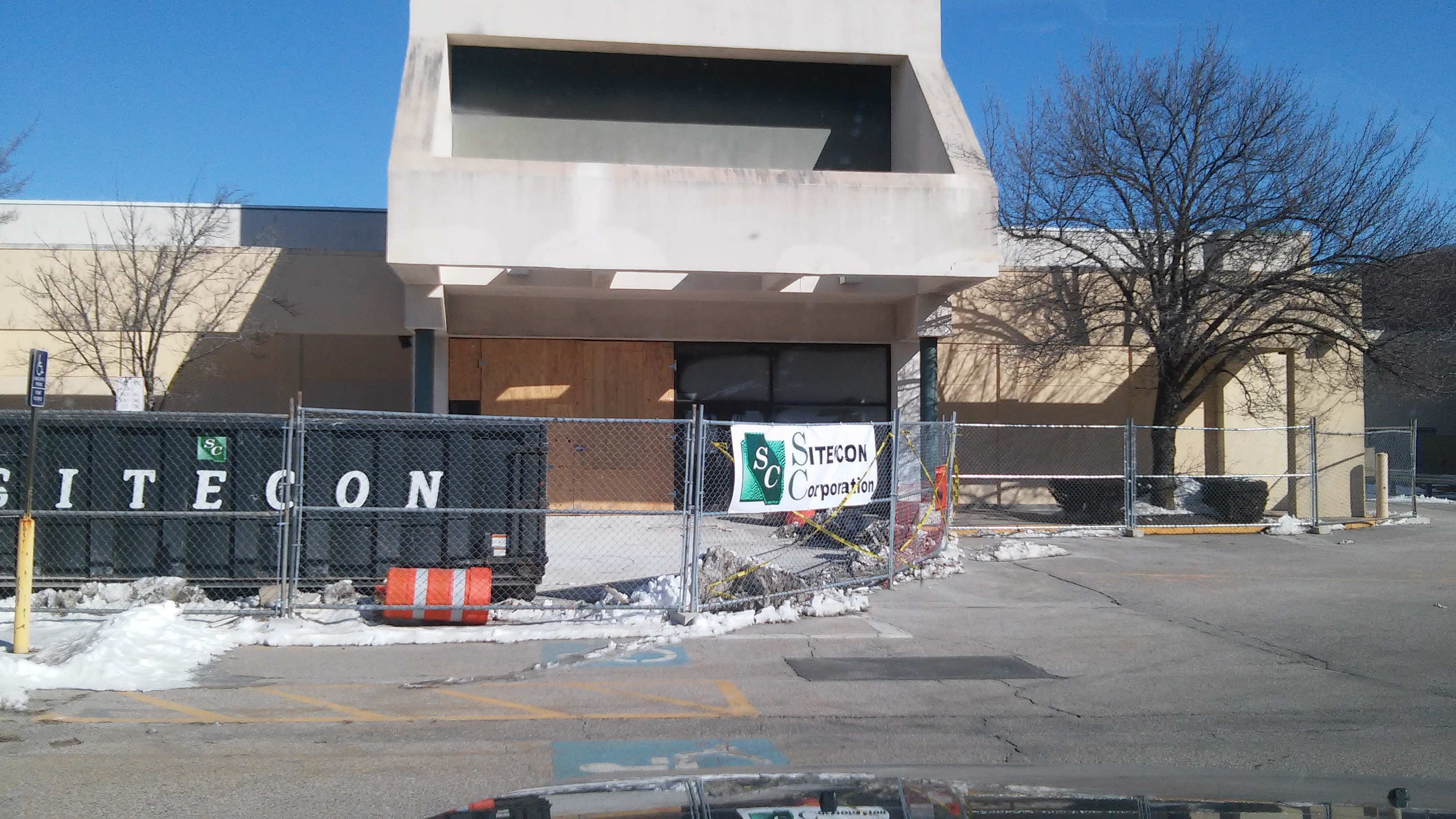 Work starts on demolition of old rhode island mall center concorse